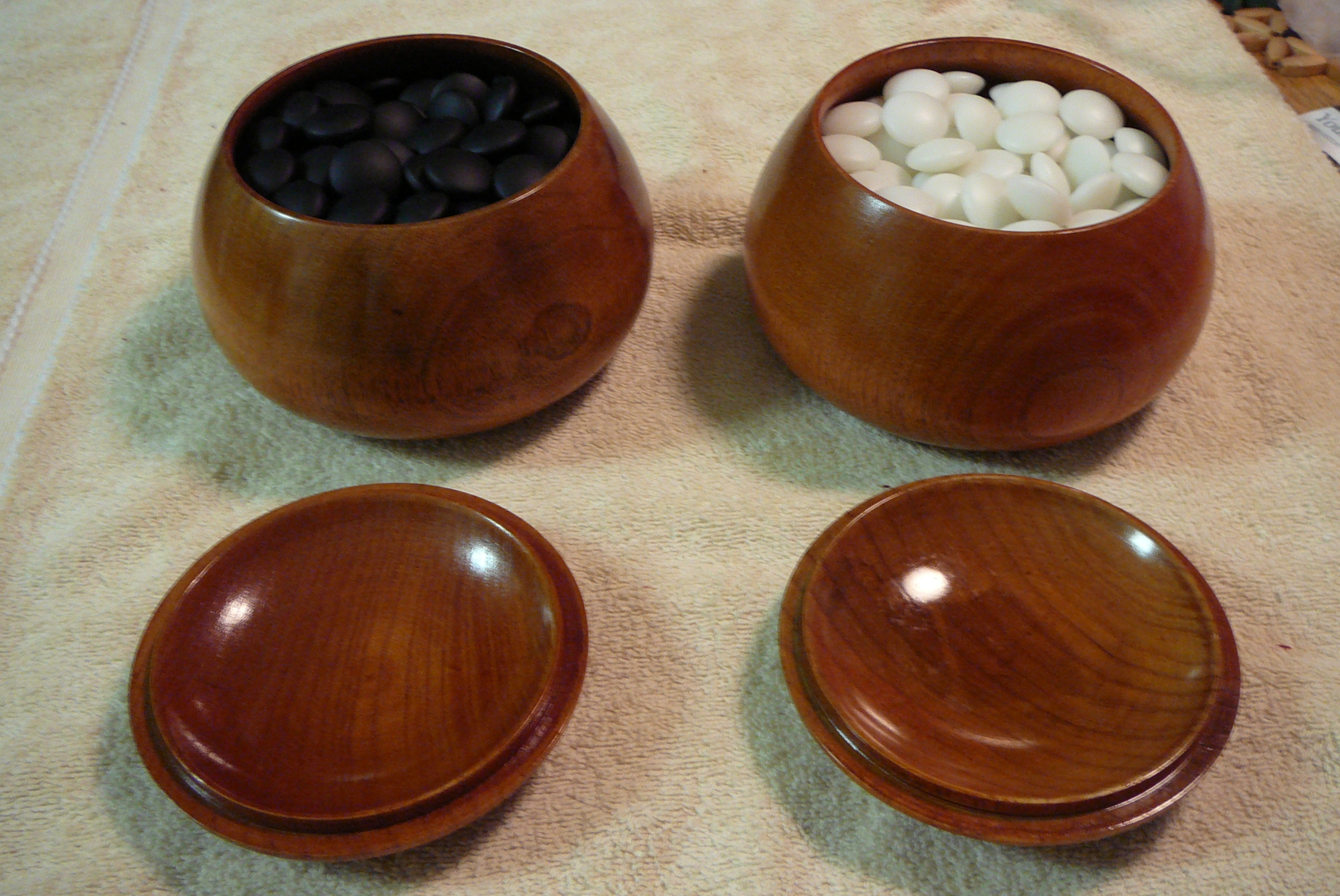 Double convex yunzi stones and bowls.